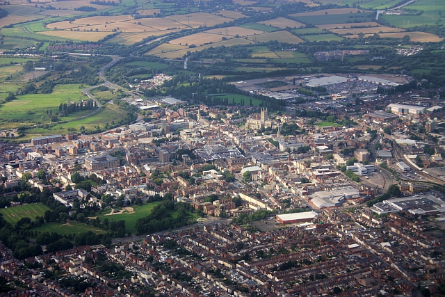 Gloucester and its cathedral Taken from an aeroplane somewhere above the Tredworth district of the city approaching Gloucester airport. The straight Roman road from Cirencester can be seen carving its way from the lower right towards the centre of the picture. The green space in the lower left is known simply as The Park.